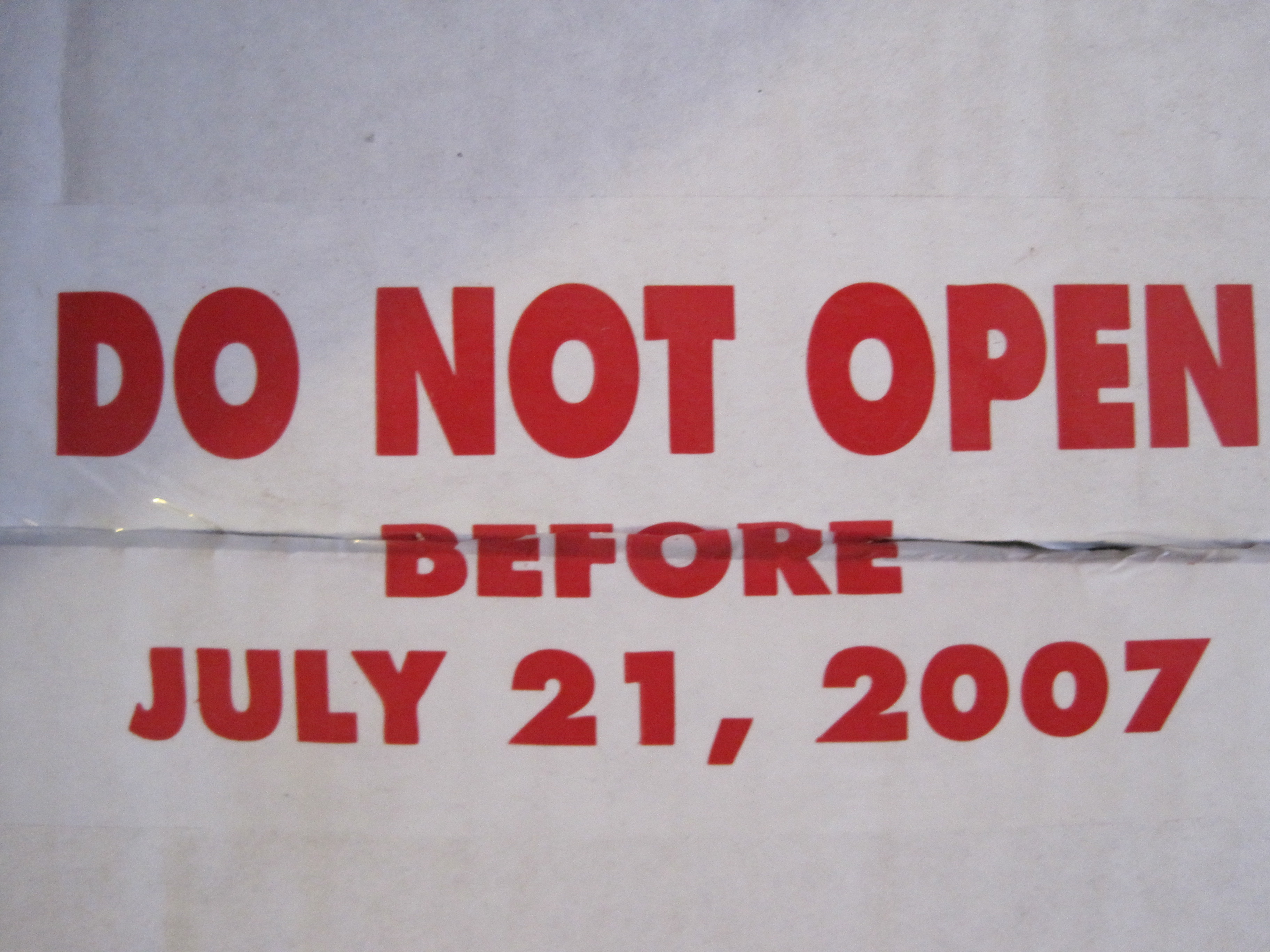 The tape warning on a Scholastic box in which the first American edition of Harry Potter and the Deathly Hallows was packaged. Each box held 10 books. This particular box was obtained from Costco following the book's release.